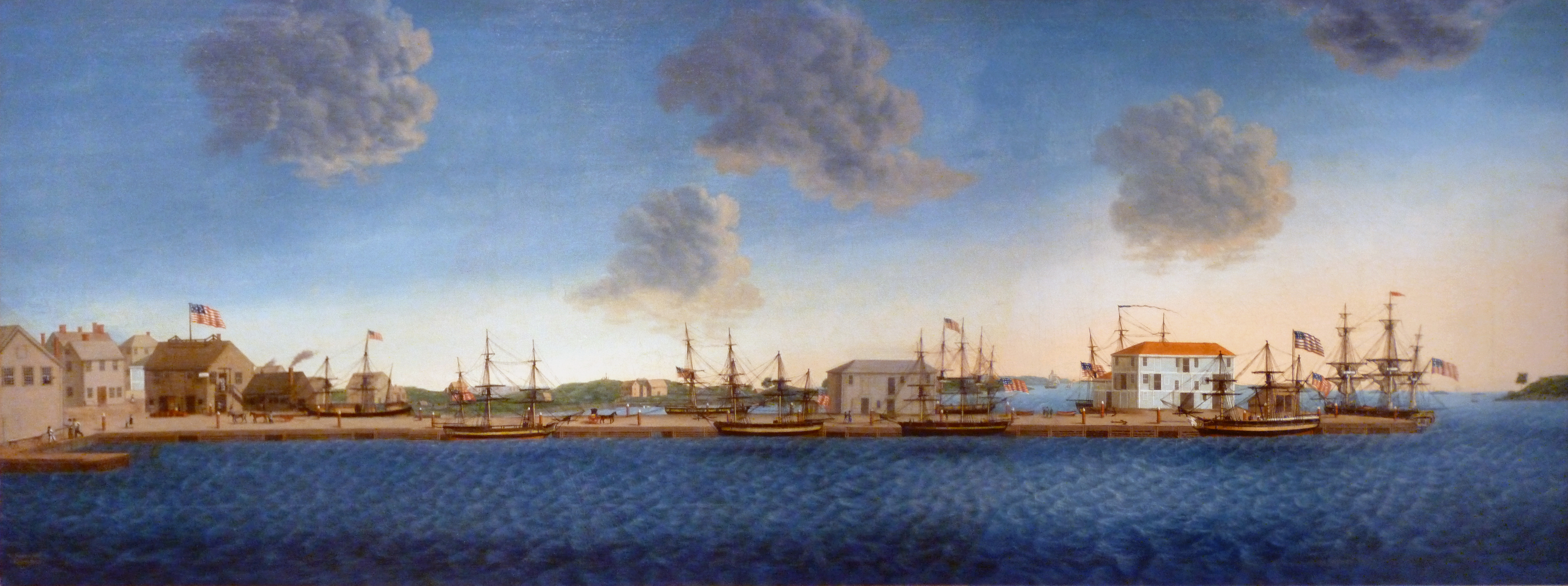 Crowninshield's Wharf. Salem, Massachusetts, USA. Oil on canvas.